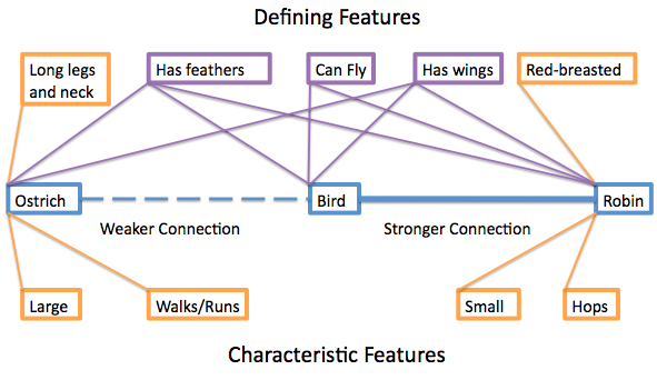 Adapted from Smith, Shoben, and Rips (1974) [1]